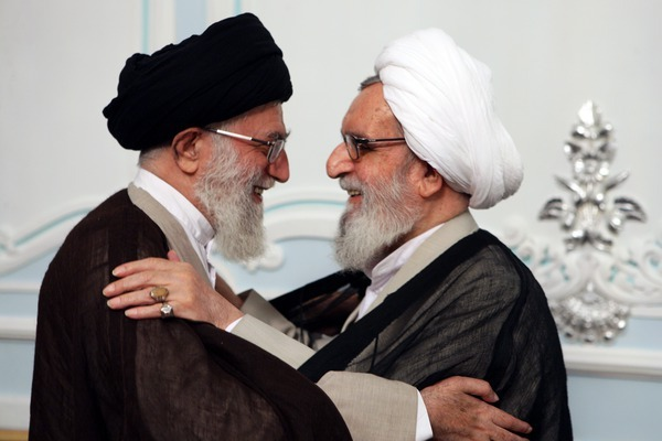 Ayatollah Seyyed Ali Khamenei the Supreme leader of Iran beside Ayatollah Abbas Vaez Tabasi the Grand Imam and Chairman of the Astan Quds Razavi board from 1979 until his death in 2016.